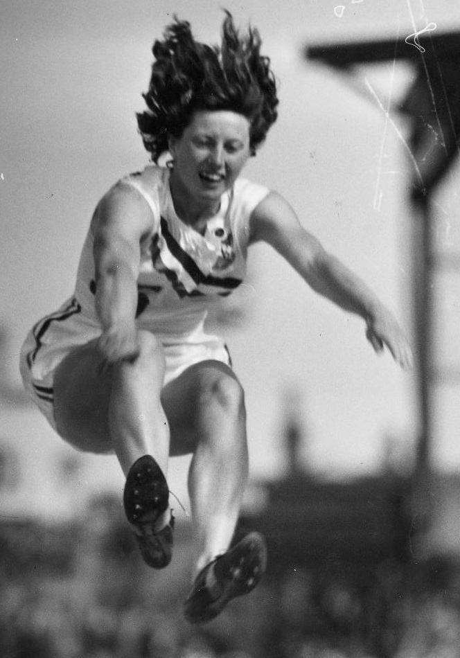 Yvette Williams mid-air in a long jump, in an attempt to break her own world record at Carisbrook Park in Dunedin during a visit of Queen Elizabeth II and Philip, Duke of Edinburgh.